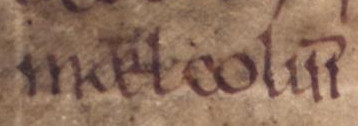 The name of Máel Coluim mac Domnaill, King of Strathclyde (died 997) as it appears on folio 25r of Oxford Bodleian Library MS Rawlinson B 502.